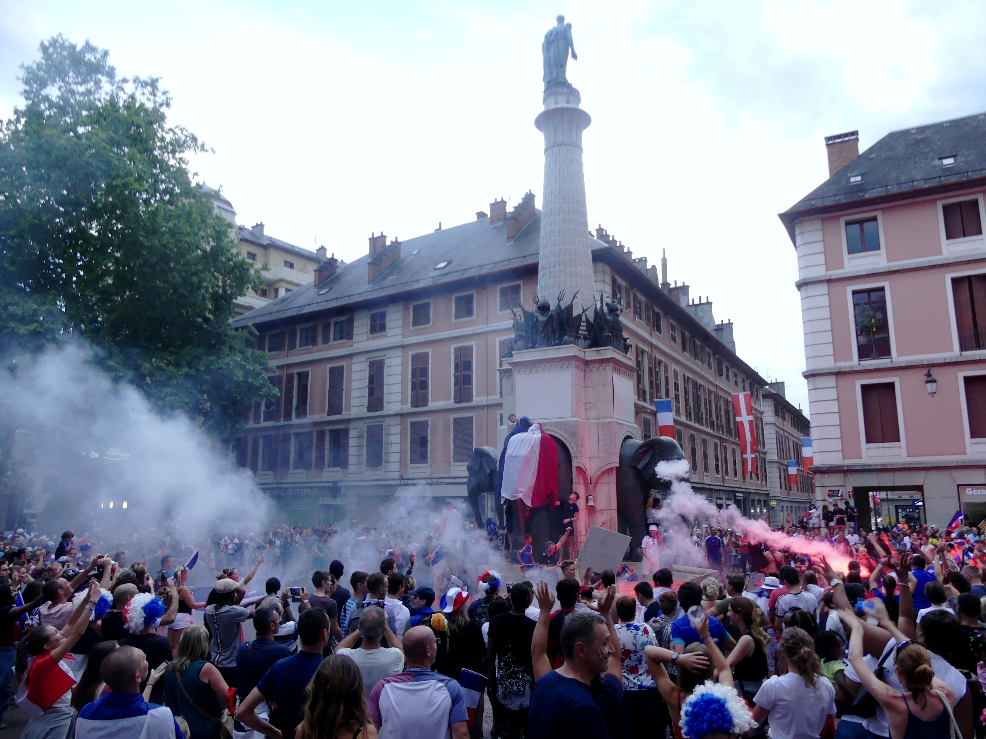 Sight of people gathered around the fontaine des éléphants fountain on which a flag is laid to celebrate France's victory at the 2018 football World Cup, in Chambéry, Savoie, France.